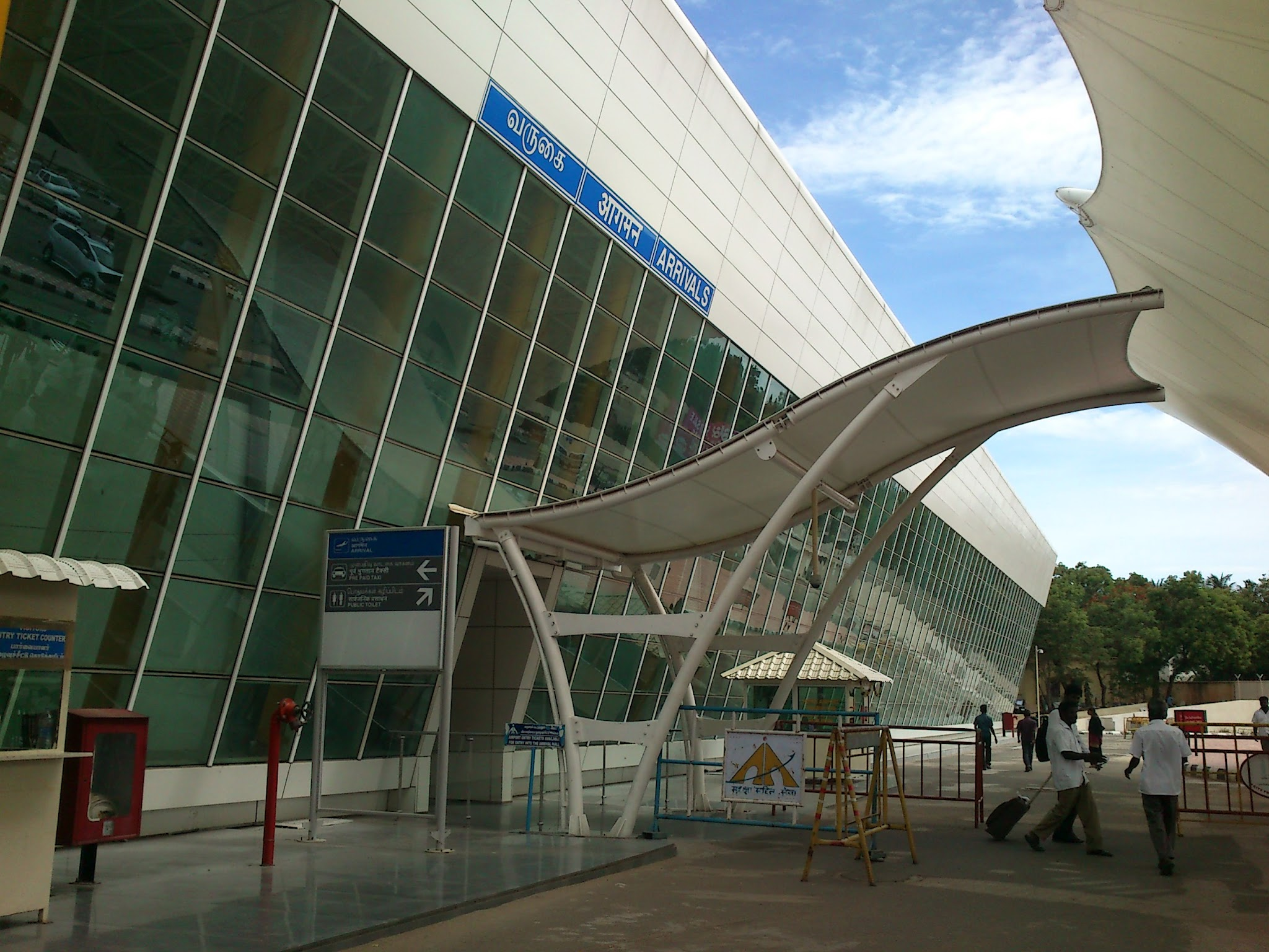 Domestic terminal at CJB